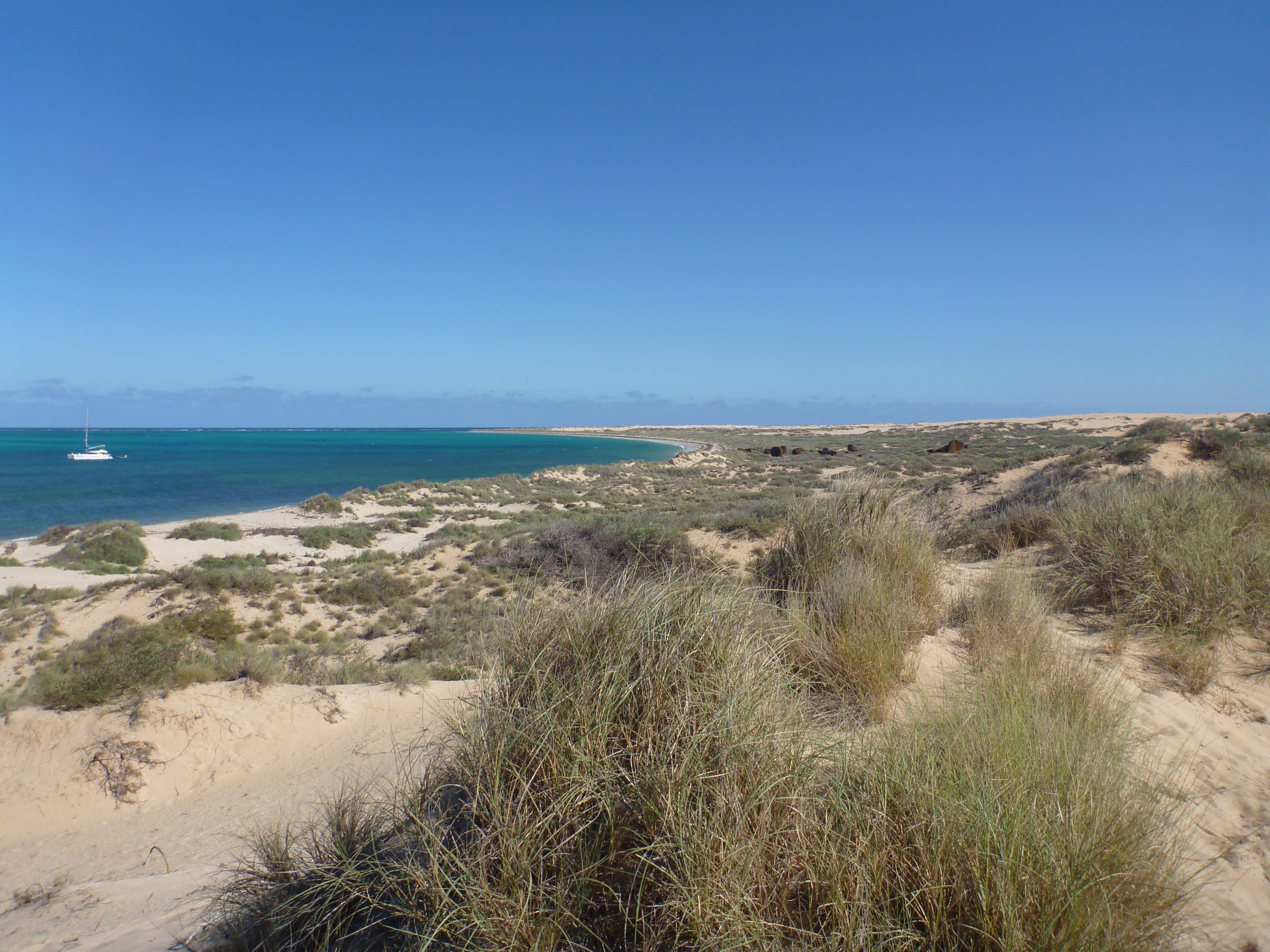 Ningaloo reef shoreline